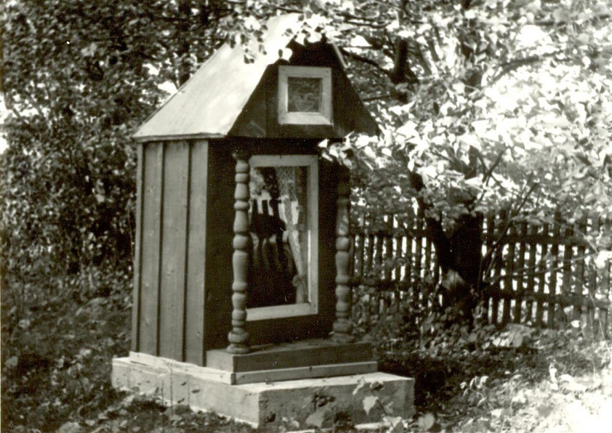 Akmenalės, Kretinga district, LithuaniaLietuvių: Akmenalių kapinių II koplytėlė, Kretingos rajonas, Lietuva